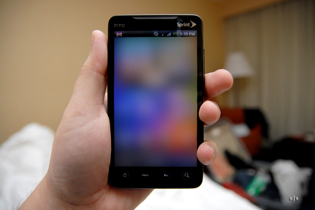 One of the free goodies from 2010 Google IO Conference